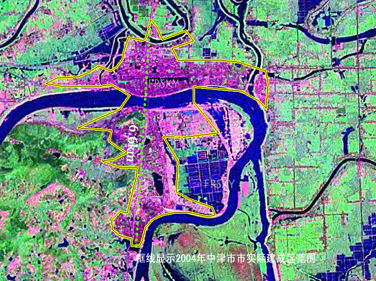 Sat Img of Jinshi City(HN Prov.,CHN)